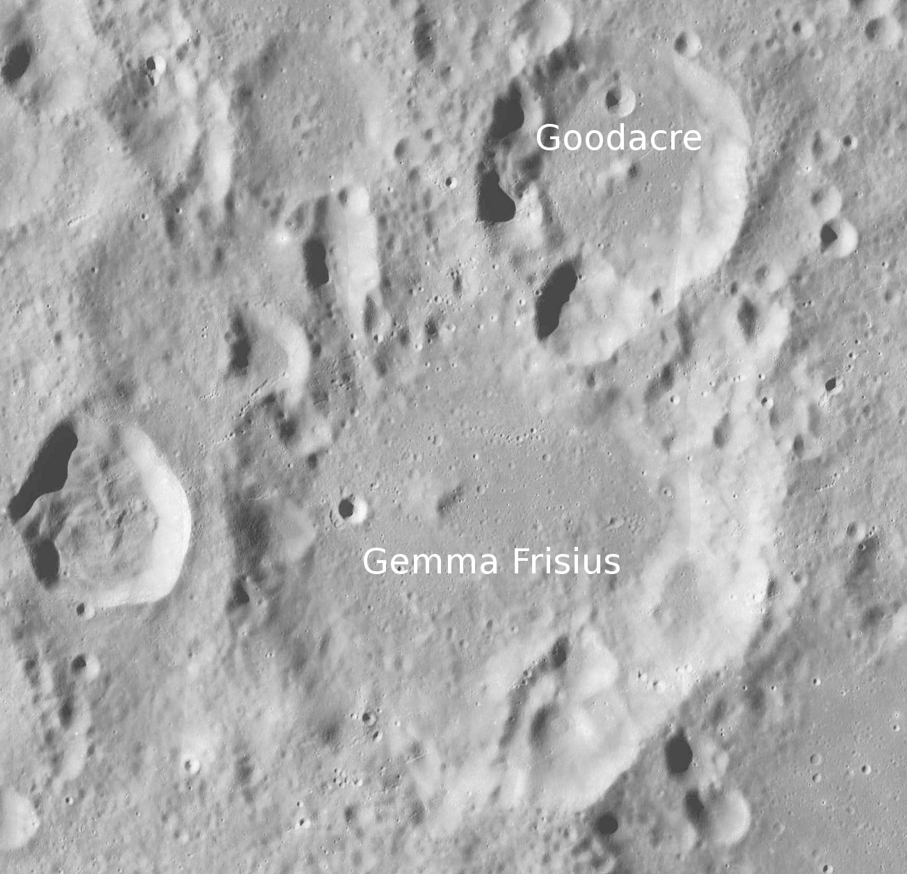 Craters Gemma Frisius and Goodacre (detail of LRO - WAC global moon mosaic; Mercator projection)